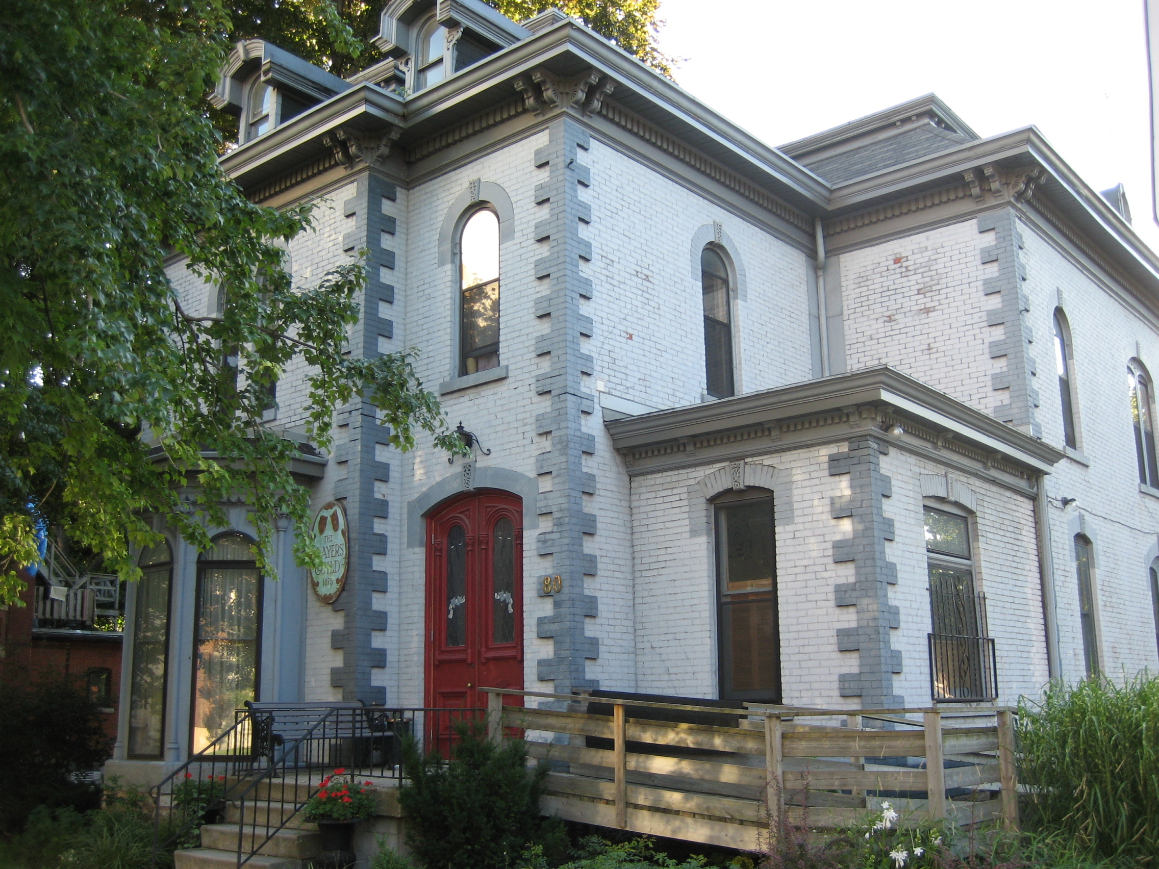 Player's Guild of Hamilton Inc. (theatre), Queen Street South, Hamilton, Canada.